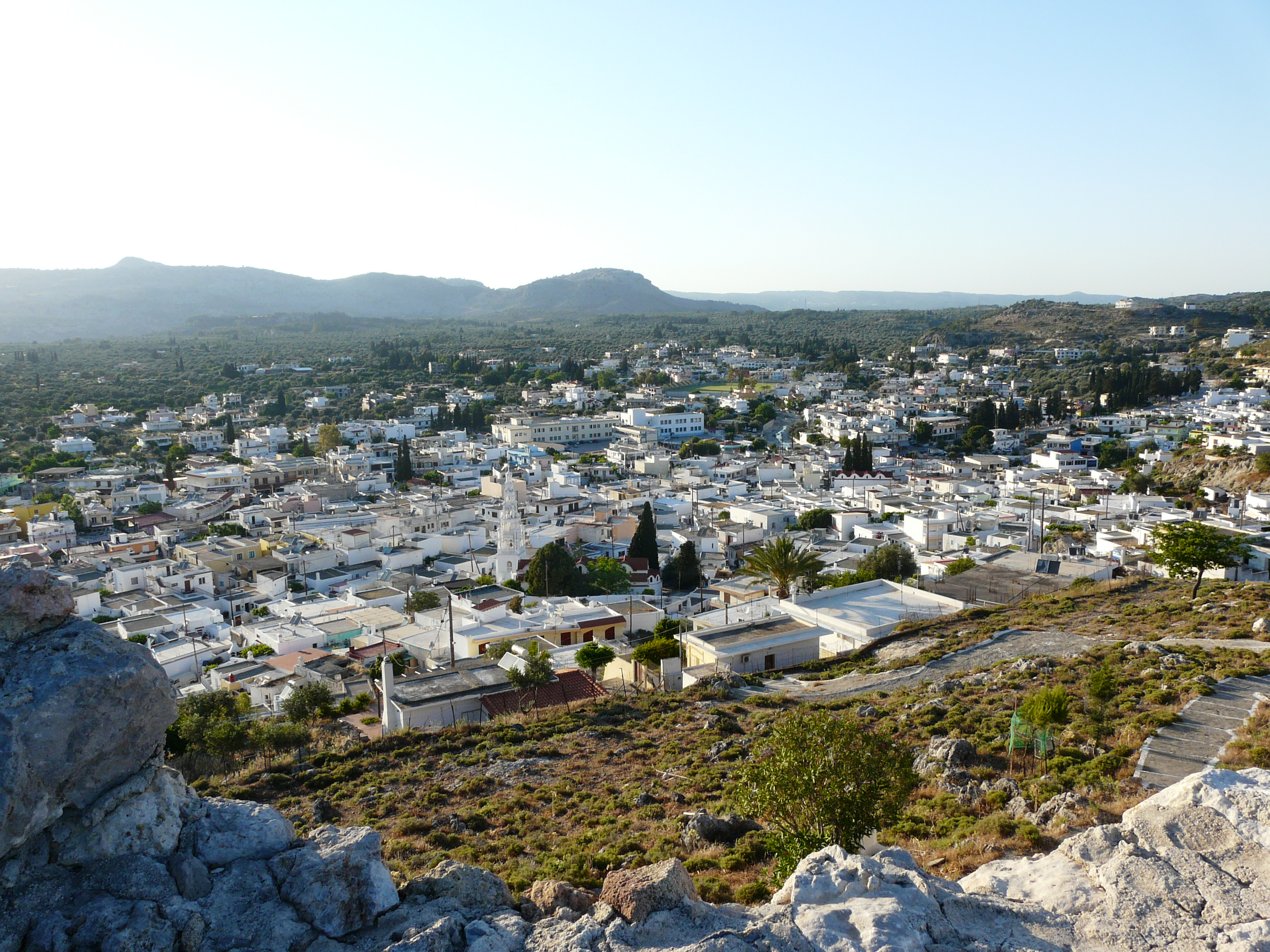 Archangelos (Rhodes). Archangelos, view from the ruins of the Saint John castle.